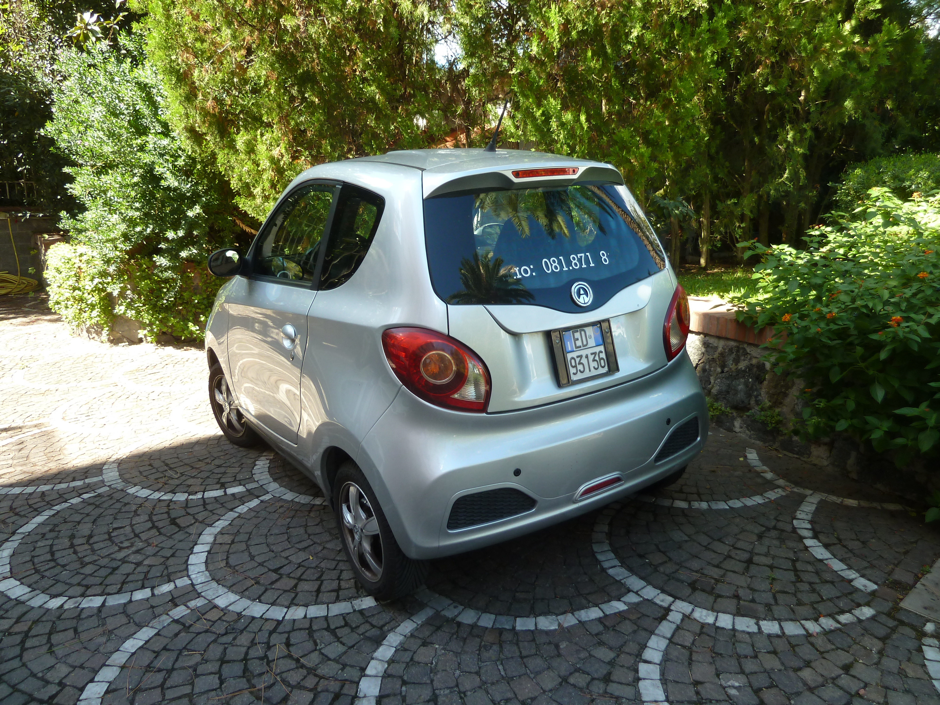 ZD D1 electric vehicle